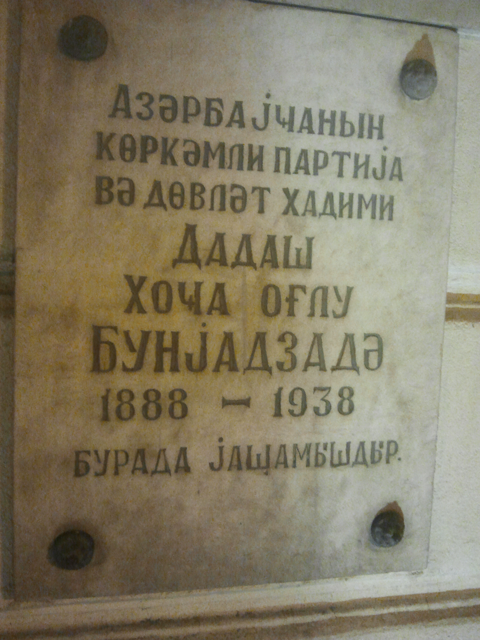 Plaque on building where Dadash Bunyadzadeh lived in Baku